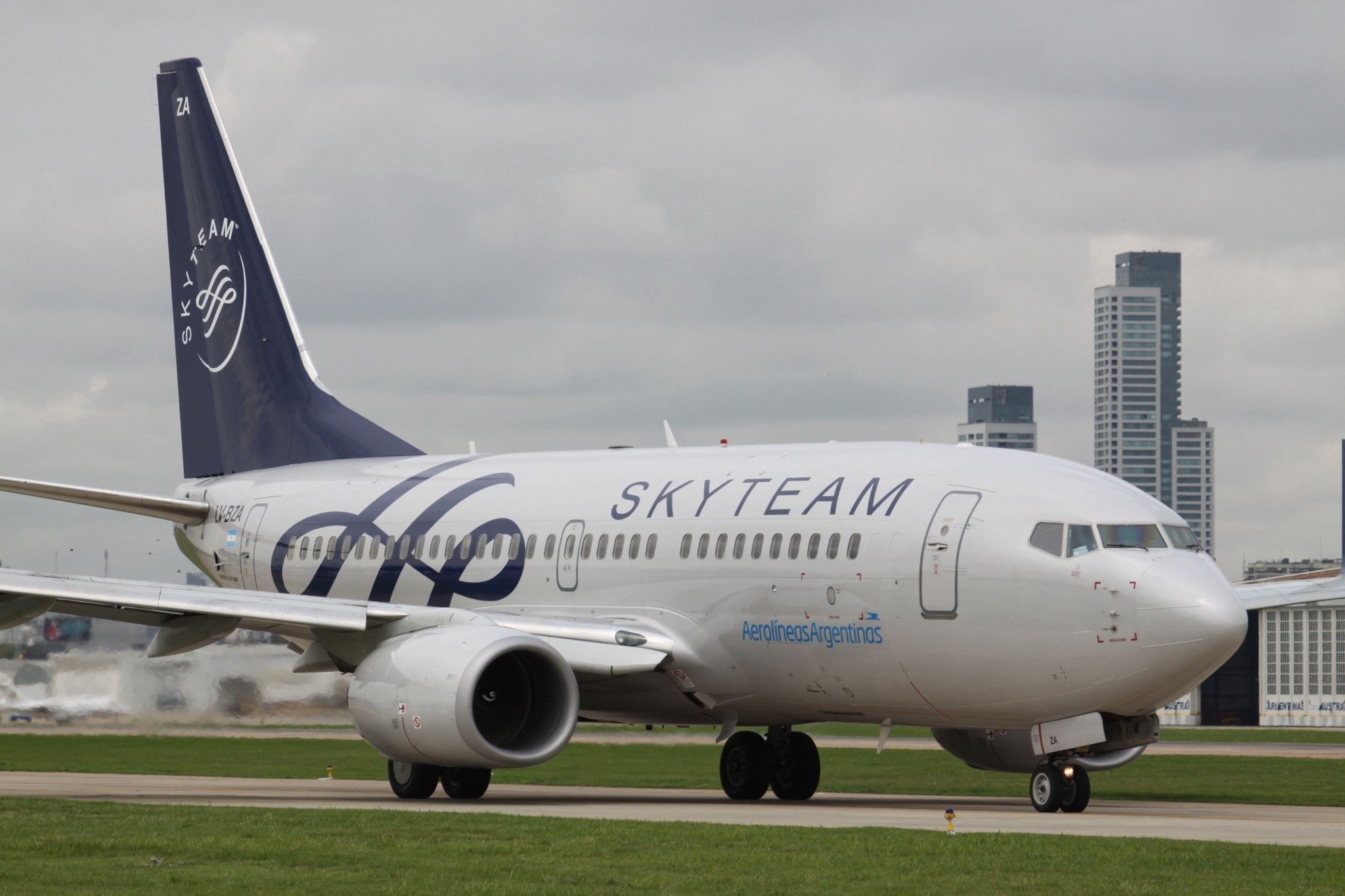 At Buenos Aires Aeroparque